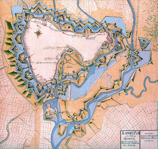 Historcal map of Olomouc fortress (Czech Republic) in 1757.